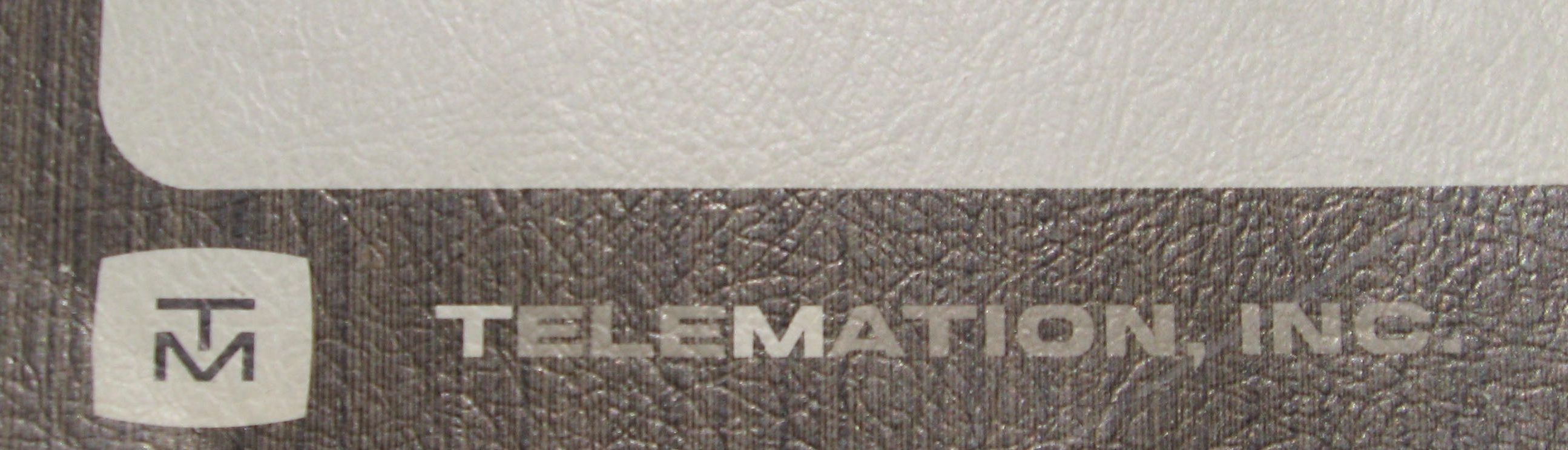 telecineguy Telemation Inc. Logo My own work